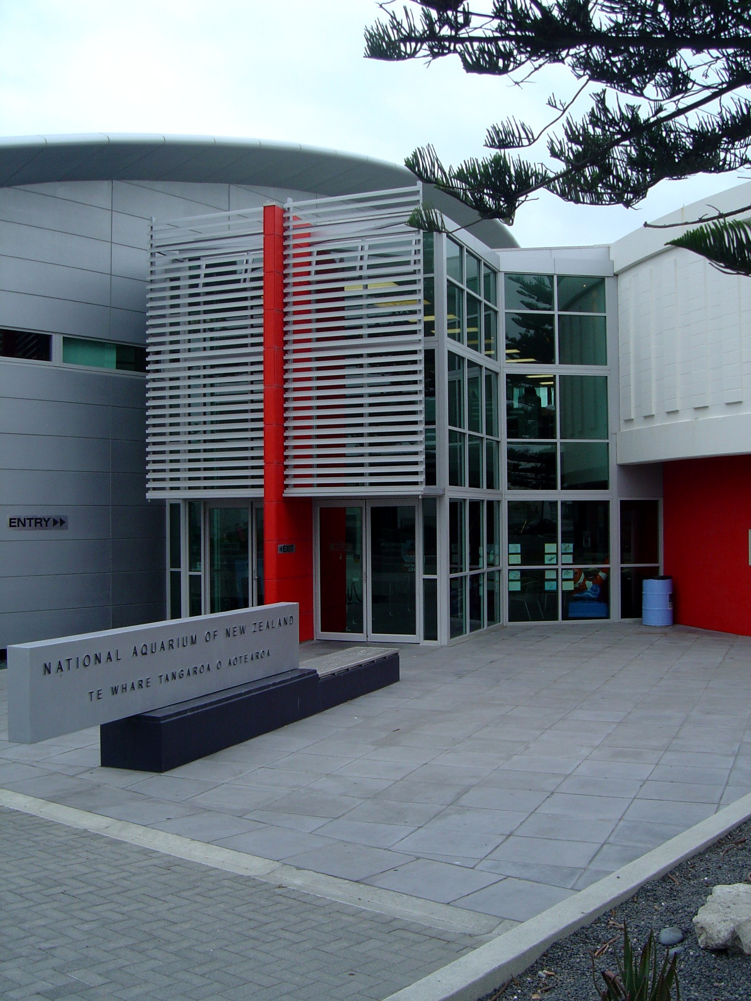 entry to the national aquarium of new zealand in Napier